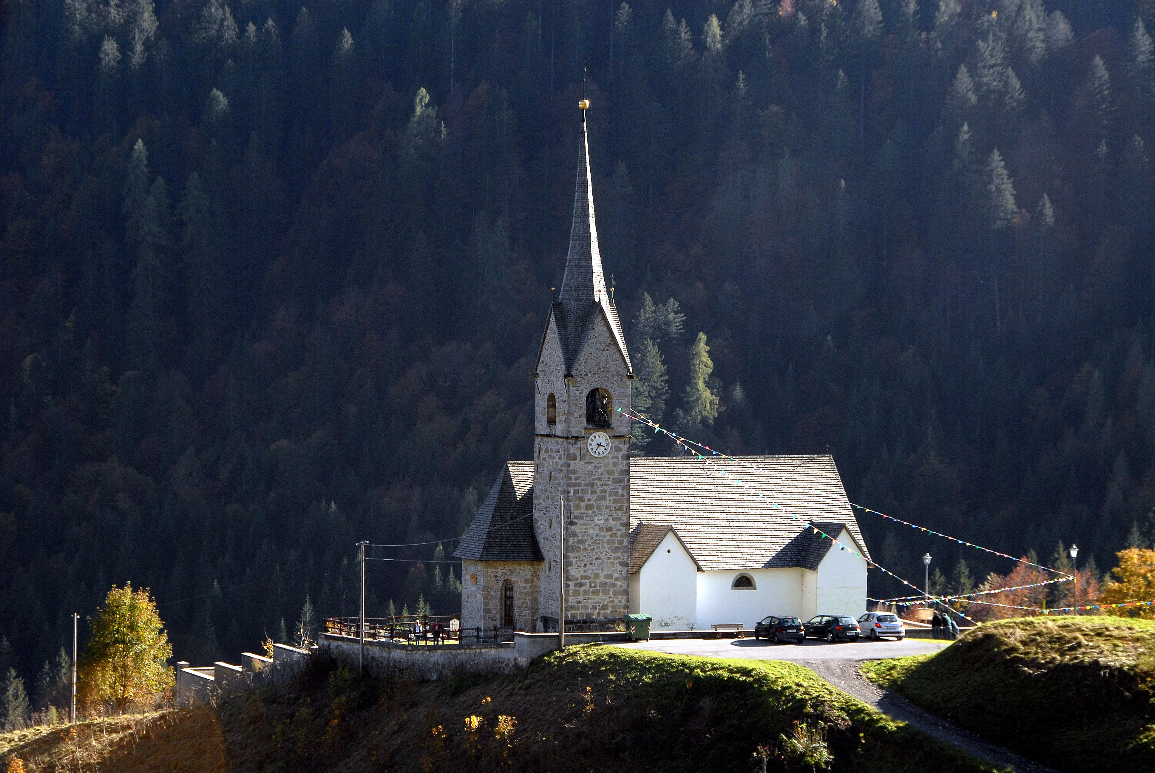 Church of Holy Stefanus at Sauris di sopra in the community Sauris, region Friuli Venezia-Giulia, Italy